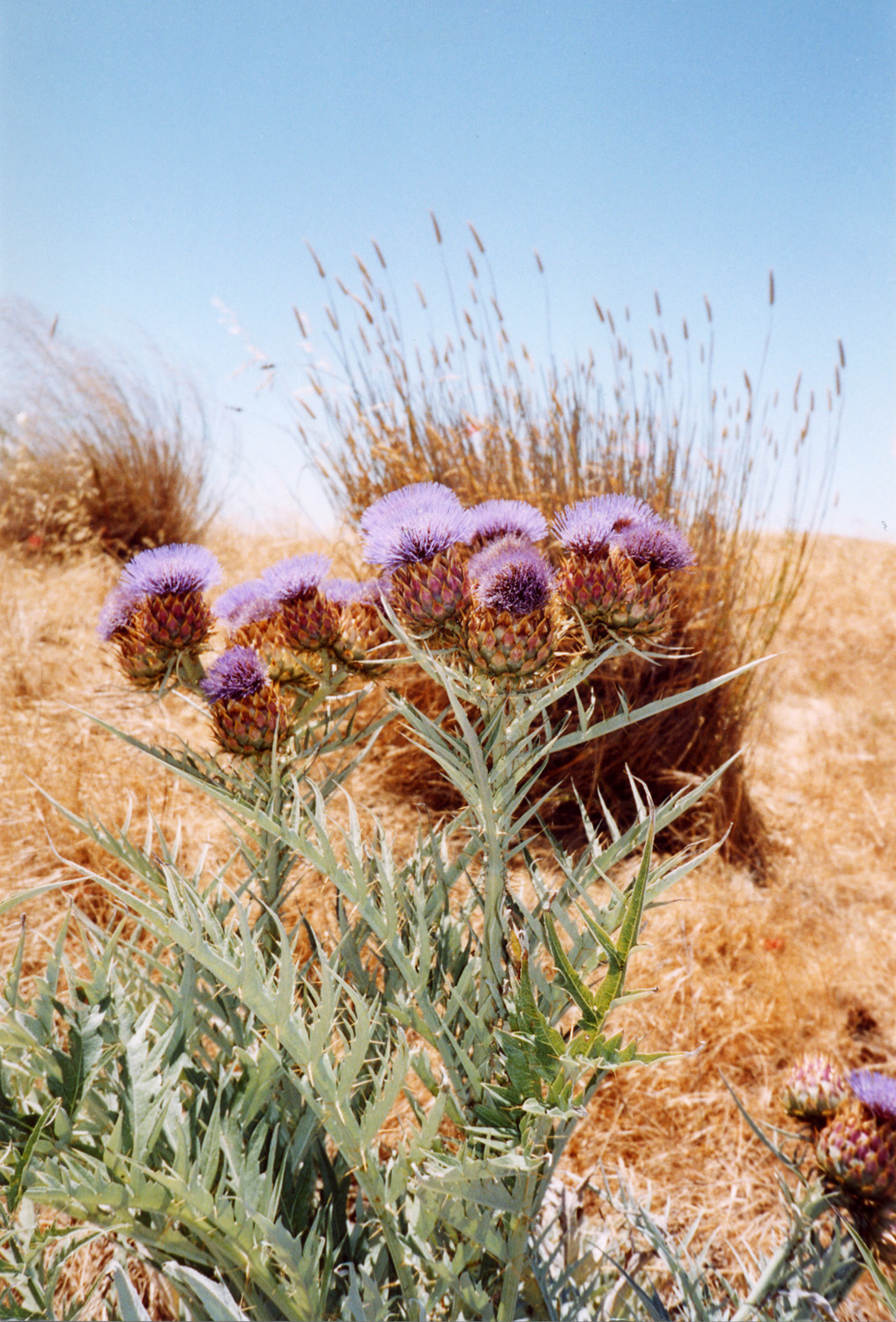 Cardoon (Cynara cardunculus). Identified by Pixeltoo. My own photo taken in Shoreline Park, Mountain View, California, USA. May - June, 2003.